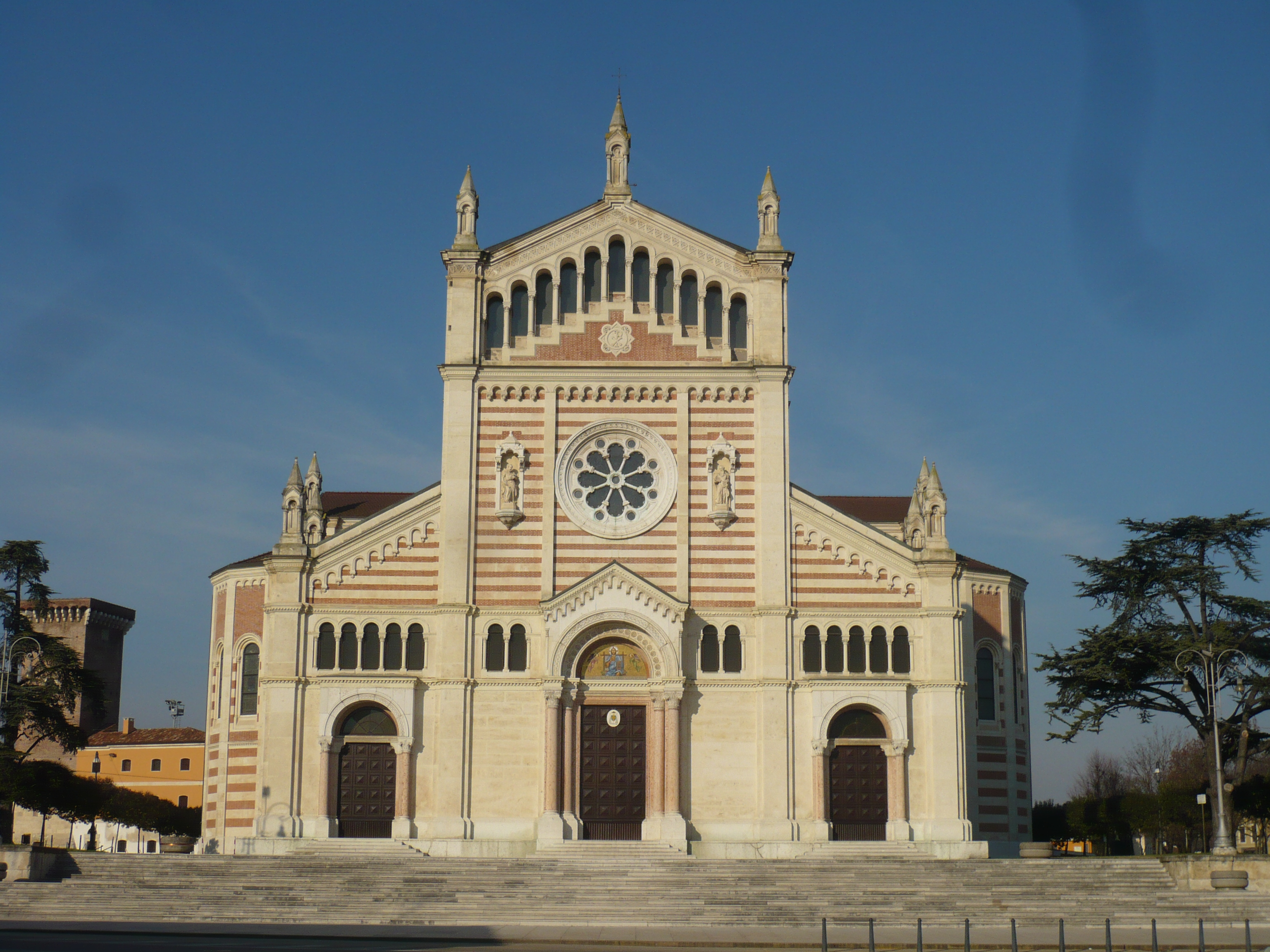 Lonigo's Church